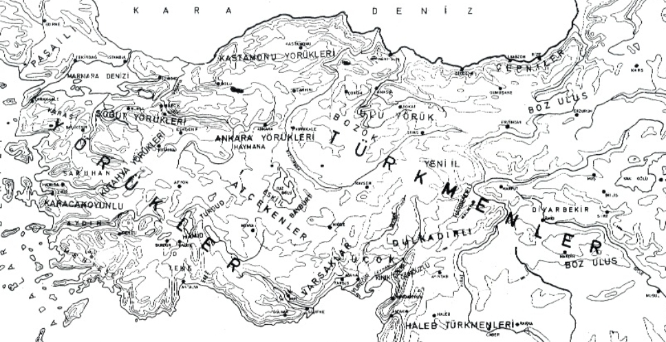 demographic distribution of Yörük and Turkmens in Anatolia.